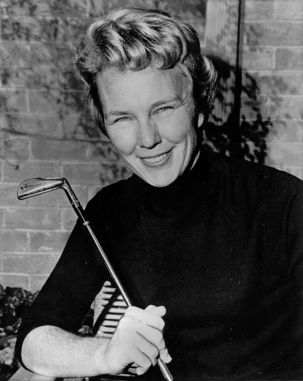 Mickey Wright is named Associated Press Female Athlete of the Year